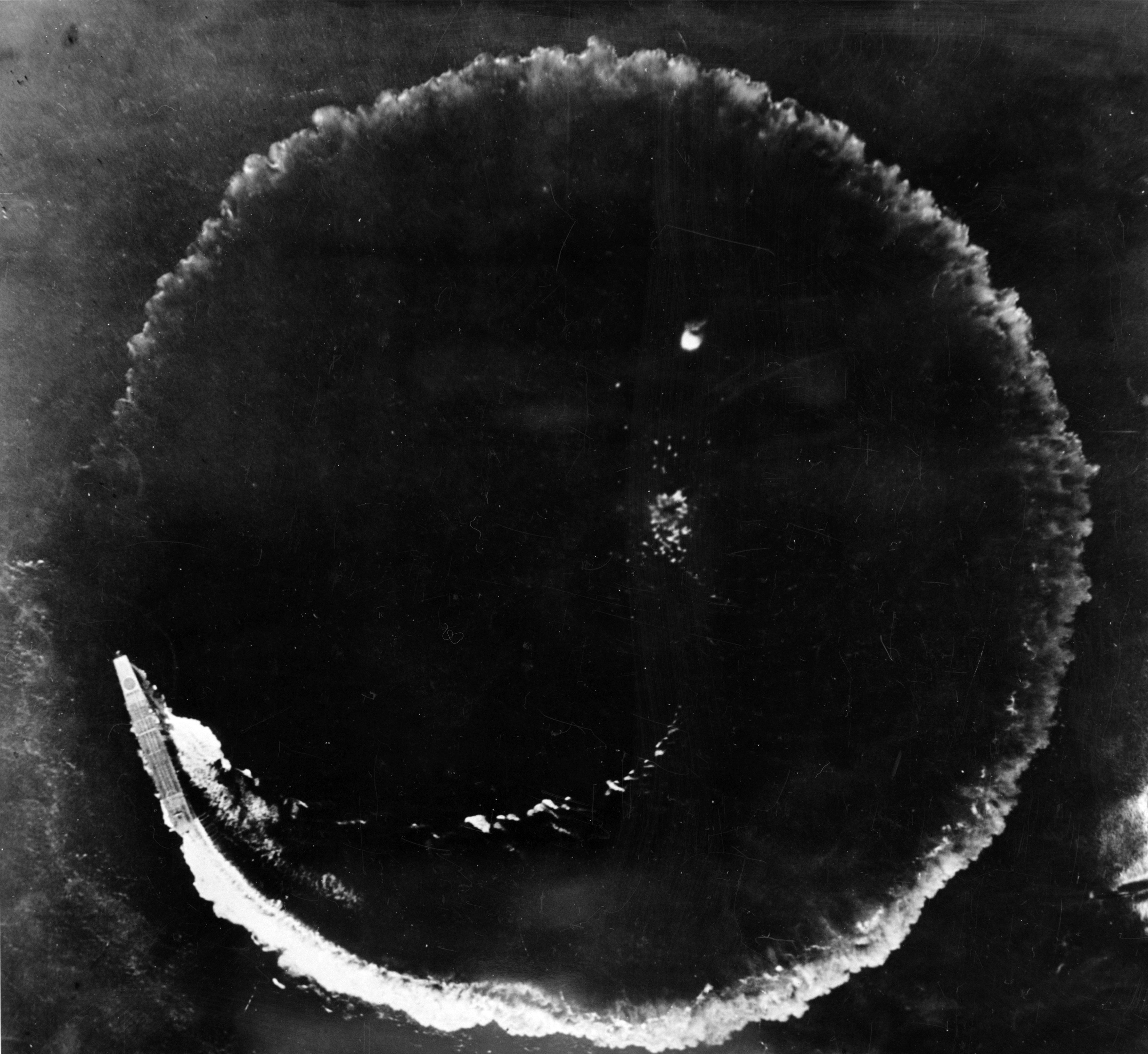 Aerial photograph of the Japanese aircraft carrier Sōryū and its circular wake during the Battle of Midway. The ship was circling as an evasion maneuver while under attack from United States Army Air Forces Boeing B-17E Flying Fortress bombers from Midway Island, shortly after 08:00h, 4 June 1942. This attack resulted in near misses, but no hits. The circular wake is approximately 1,160 meters (0.72 miles) in diameter.